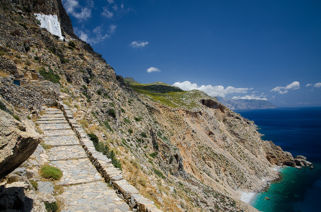 Monastery of Hozoviotissa